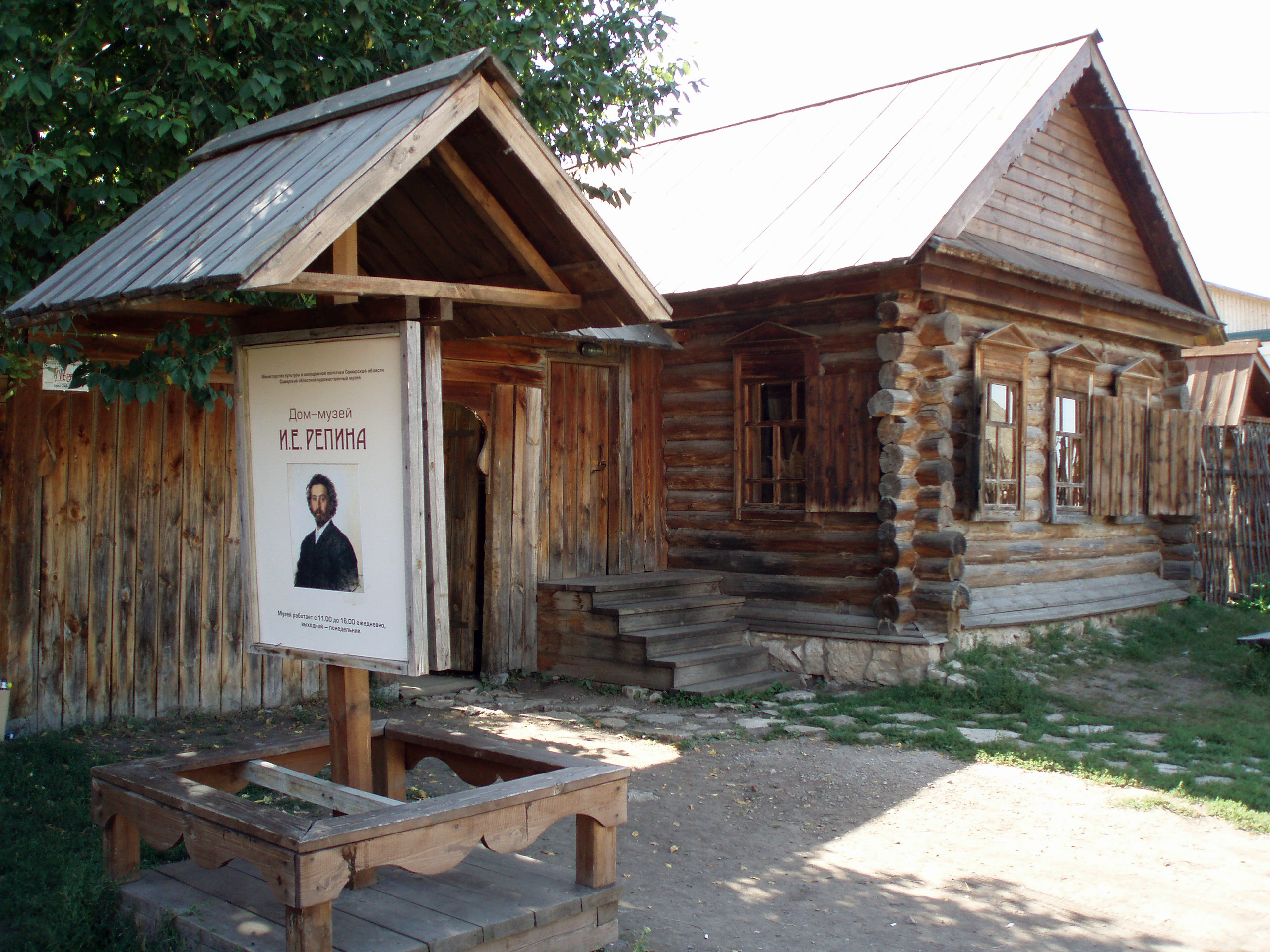 The Museum of Ilya Repin in Shiryaevo, Samara oblast, Russia